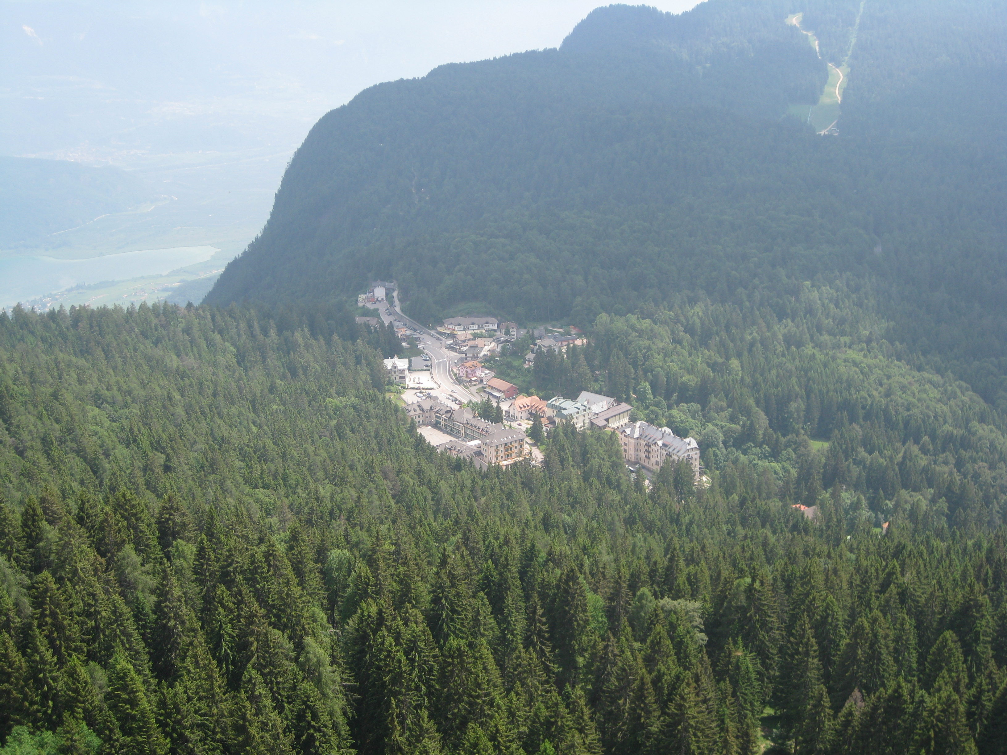 The Mendelpass and the small village on its summit as seen from the Toval